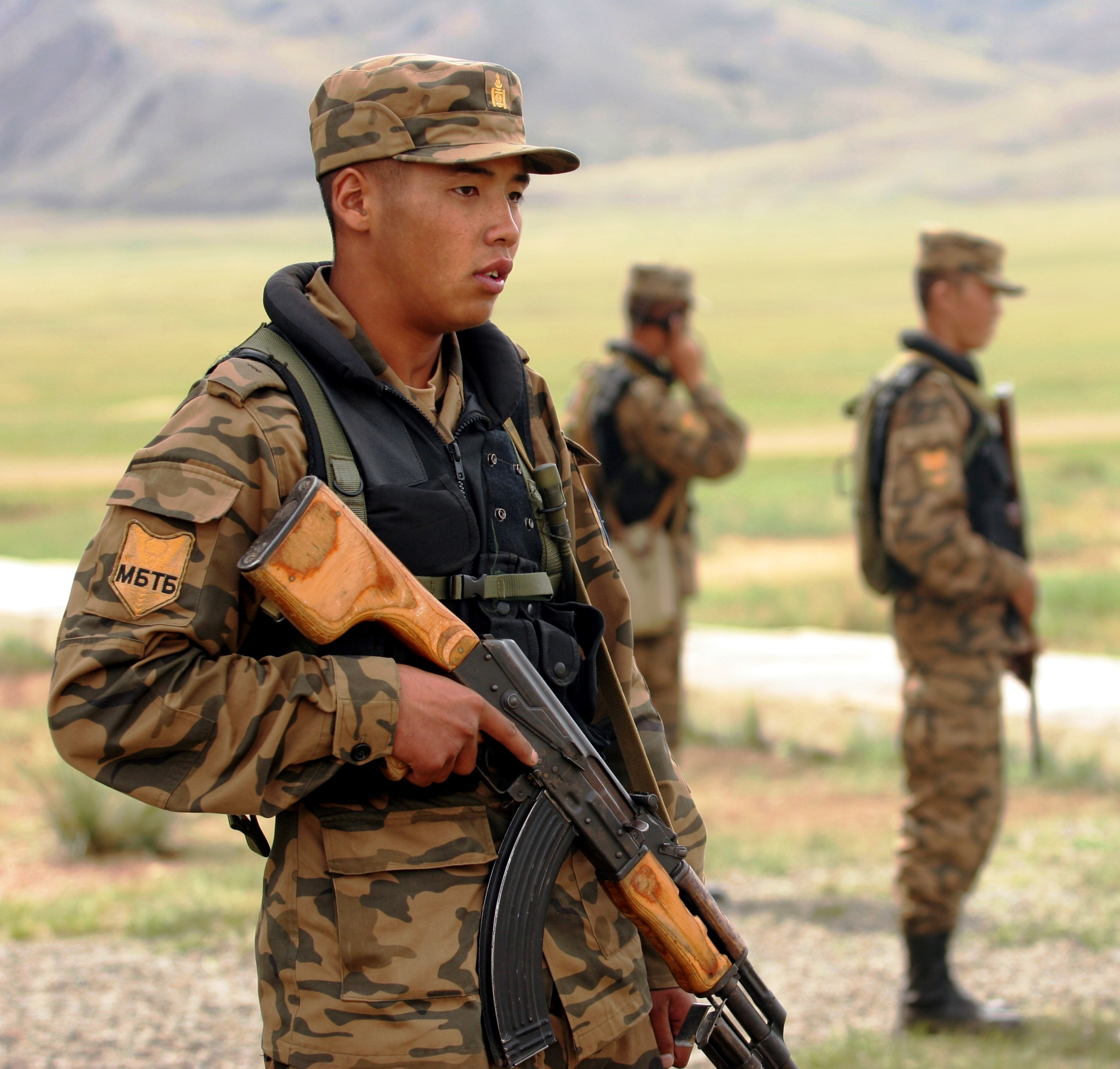 Mongolian soldiers cordon and search a small town at the Five Hills Training Center near Ulaanbaatar, Mongolia, Aug. 6, 2007, during peacekeeping training as part of Exercise Khaan Quest 2007. Khaan Quest is an annual United Nations peacekeeping exercise designed to promote improved interoperability and mutual understanding of each nation's tactics, techniques and procedures.